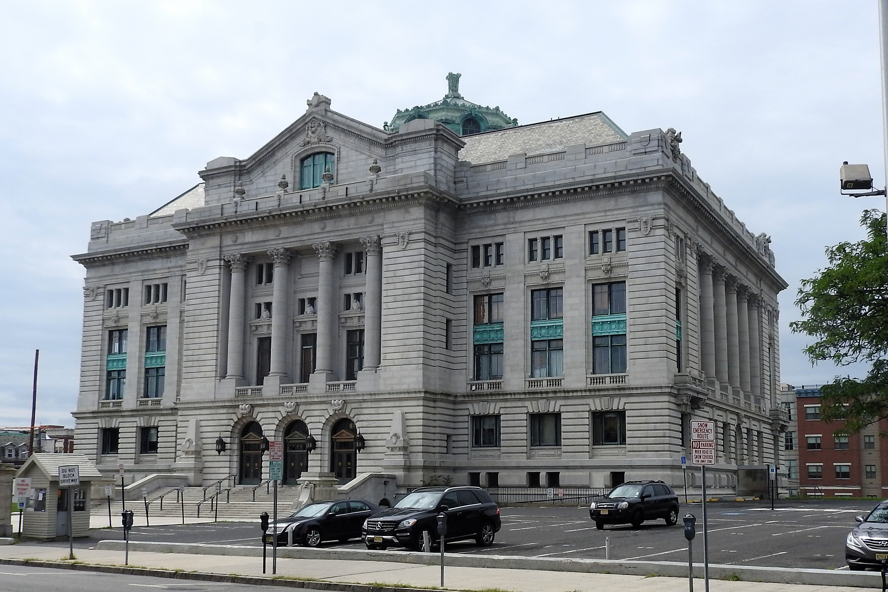 Looking south at the old, NRHP courthouse